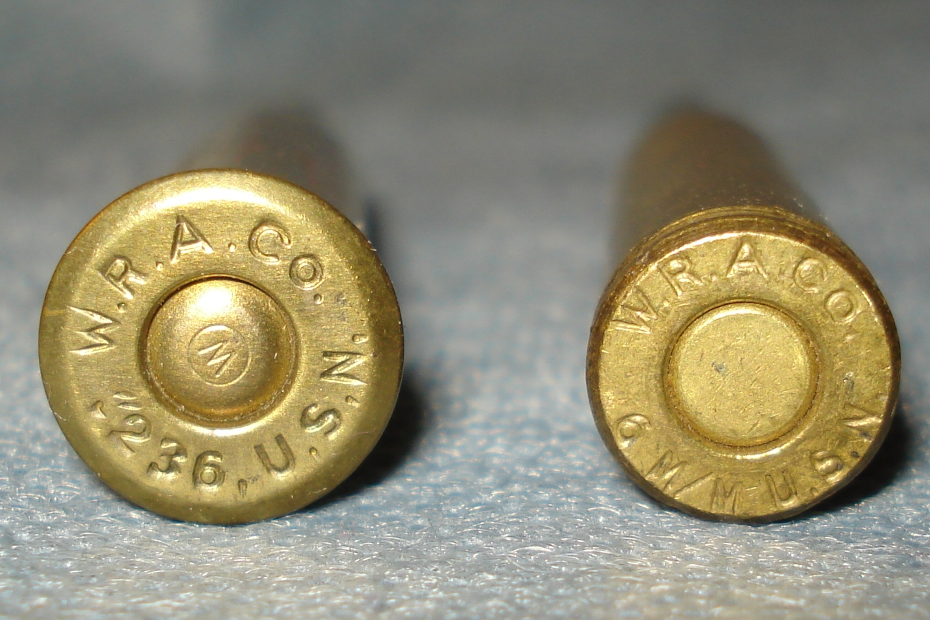 .236/6 mm U.S. Navy ammo Headstamps from Winchester.